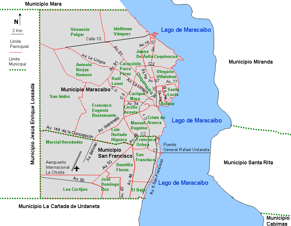 Map of the metropolitan area of Maracaibo city with its forming municipalities and (Maracaibo Municipality and San Francisco Municipality) and the parishes in which they are divided. Only the main streets are shown, neighborig municipalities are up to scale and so Maracaibo's lake.